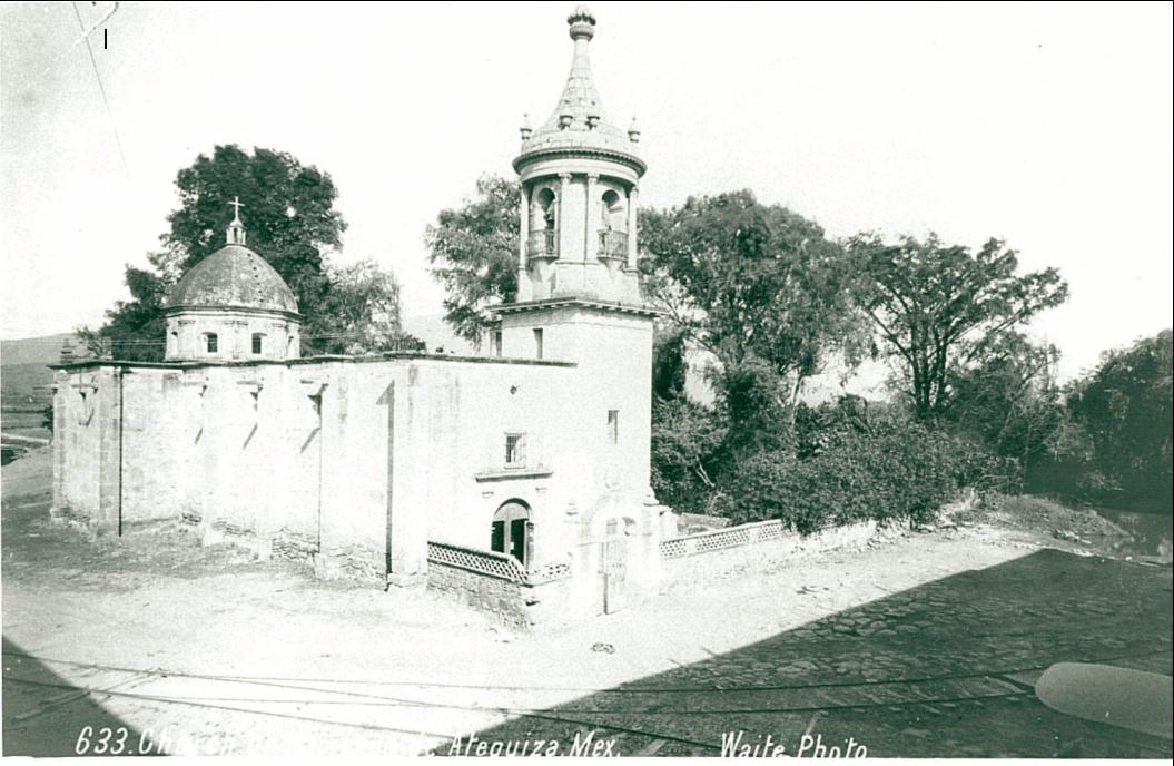 Church on Hacienda of Atequiza, Mexico